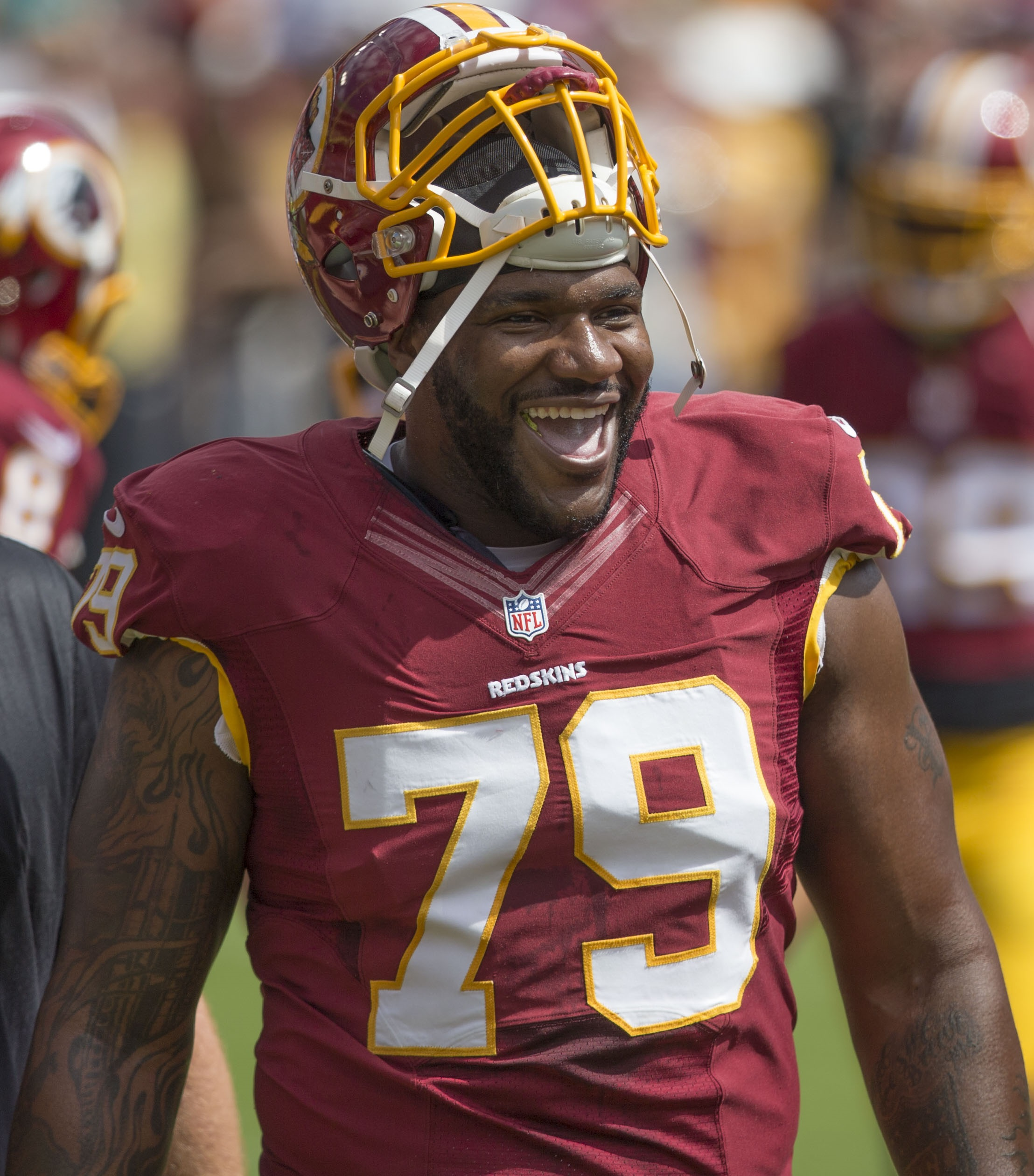 Dolphins at Redskins 9/13/15